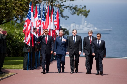 (L-R) President Barack Obama, the Prince of Wales, Britain's Prime Minister Gordon Brown, Canada's Prime Minister Stephen Harper and France's President Nicolas Sarkozy arrive at the Colleville-sur-Mer cemetery to attend a ceremony marking the 65th anniversary of the D-Day landings in Normandy June 6, 2009. In the background, a French Type F70 AA air defence frigate.